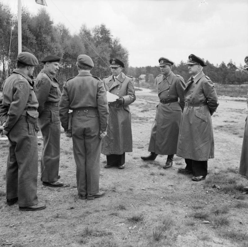 Field Marshal Montgomery receives German Admiral Von Friedeburg and other members of the surrender delegation at 21st Army Group Headquarters near Lüneburg, 3 May 1945.